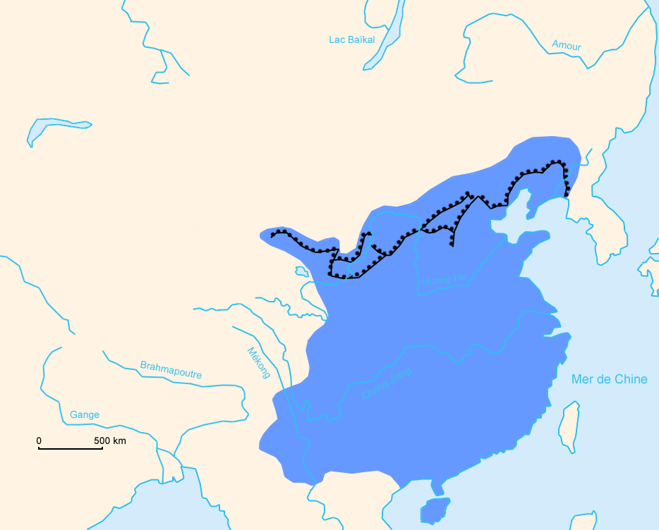 PNG map of the Great Wall : Ming Dynasty (1368 AD - 1644 AD) only. It includes french names.